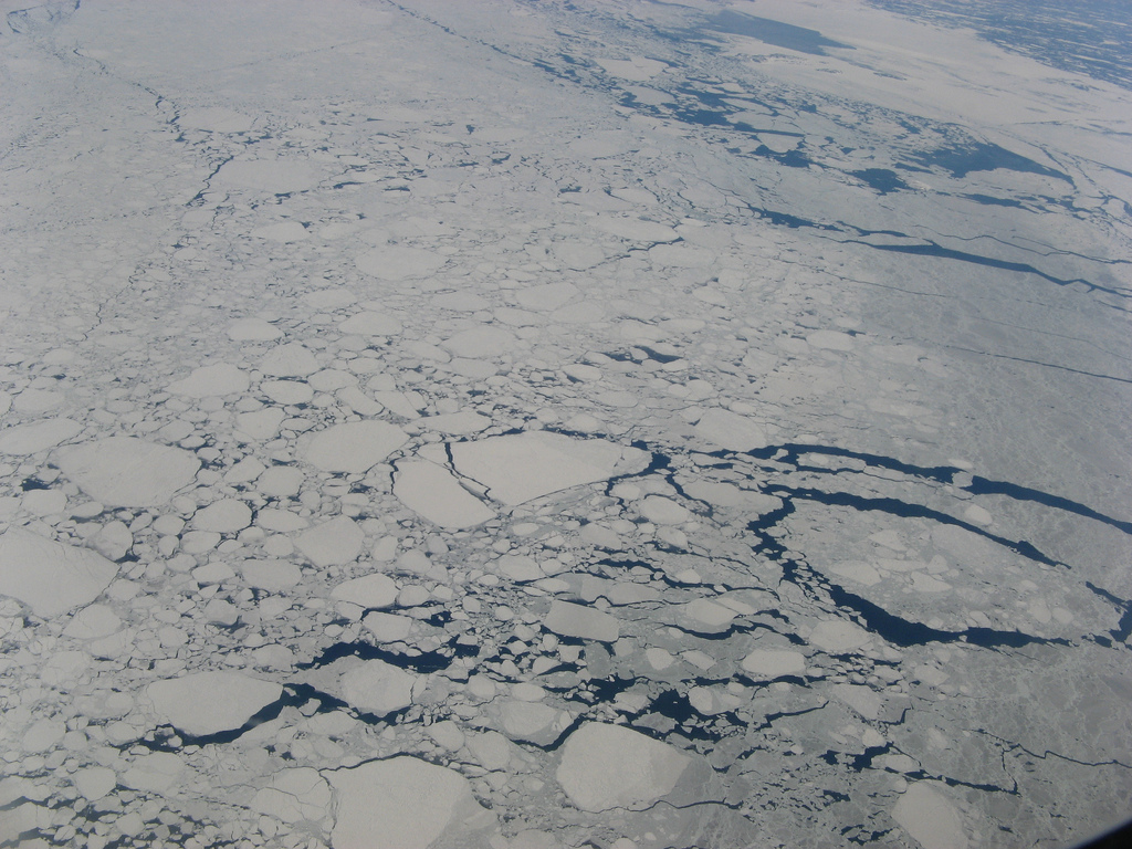 Sea ice near coast of Labrador.